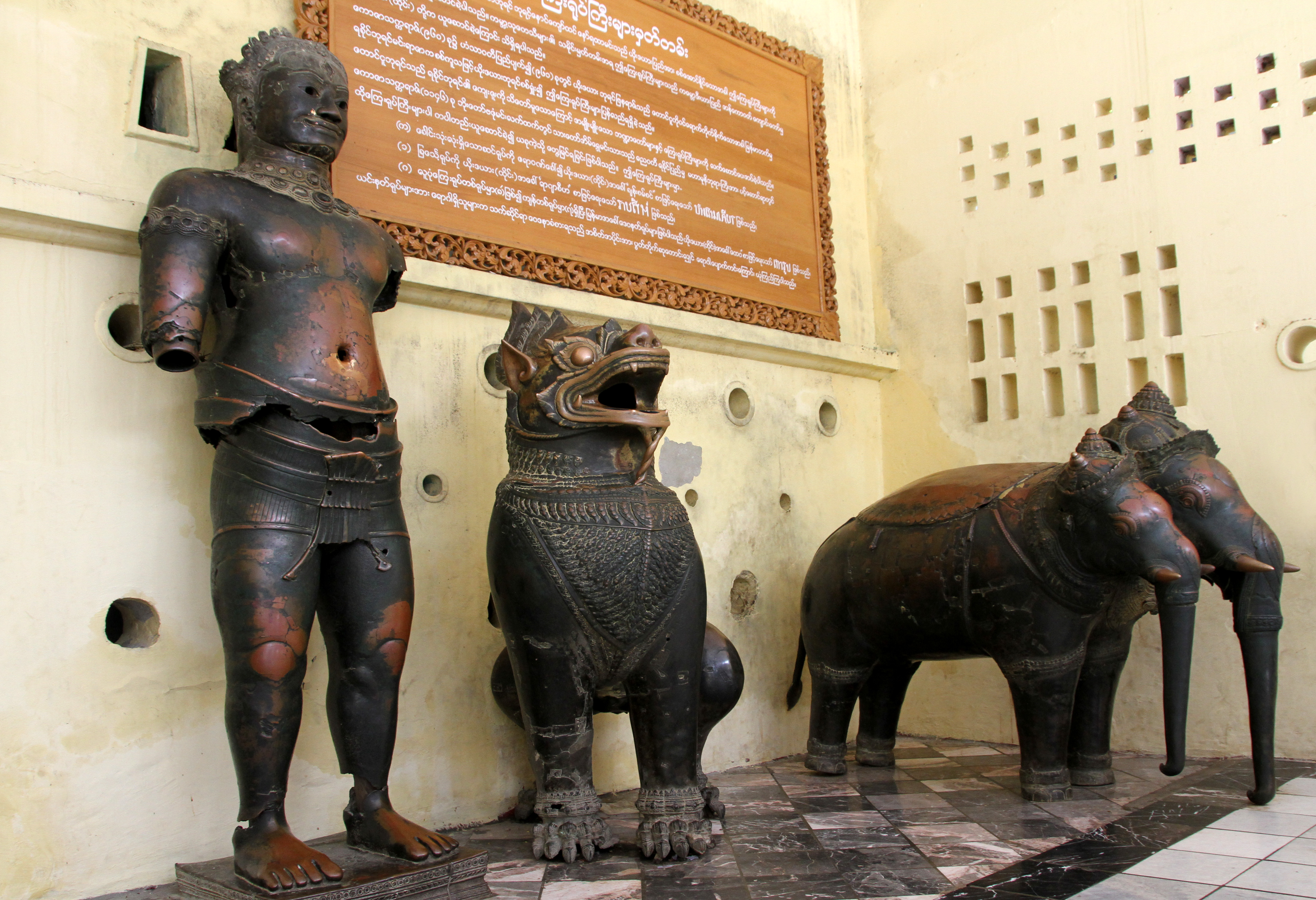 Mahamuni Pagoda in Mandalay in Myanmar. Khmer bronze from Thailand.